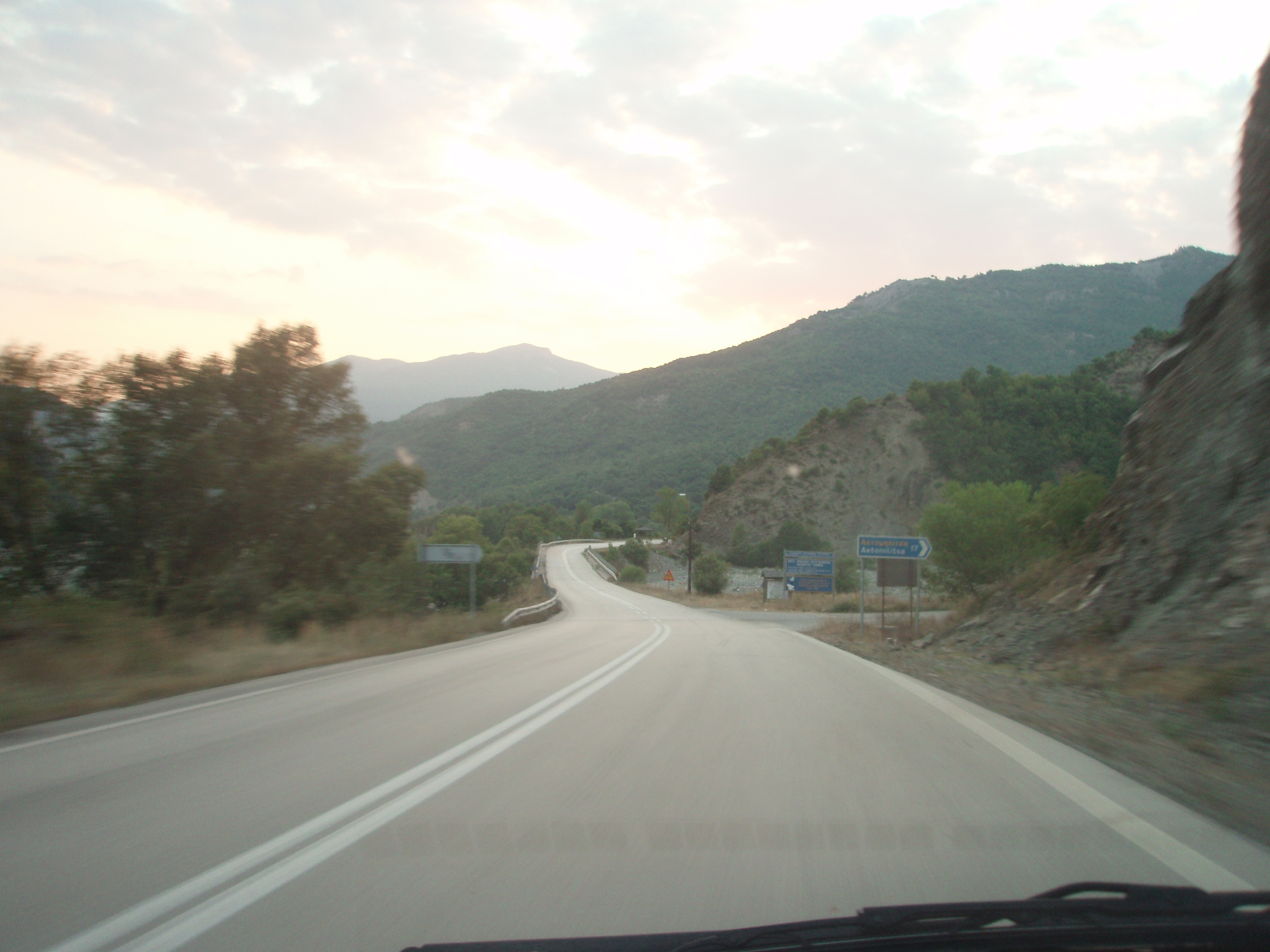 National Road 20, Greece. Section Eptachori-Pirsogianni, Epirus. Mount Smolikas, 2nd highest mountain in Greece, is visible in the background.